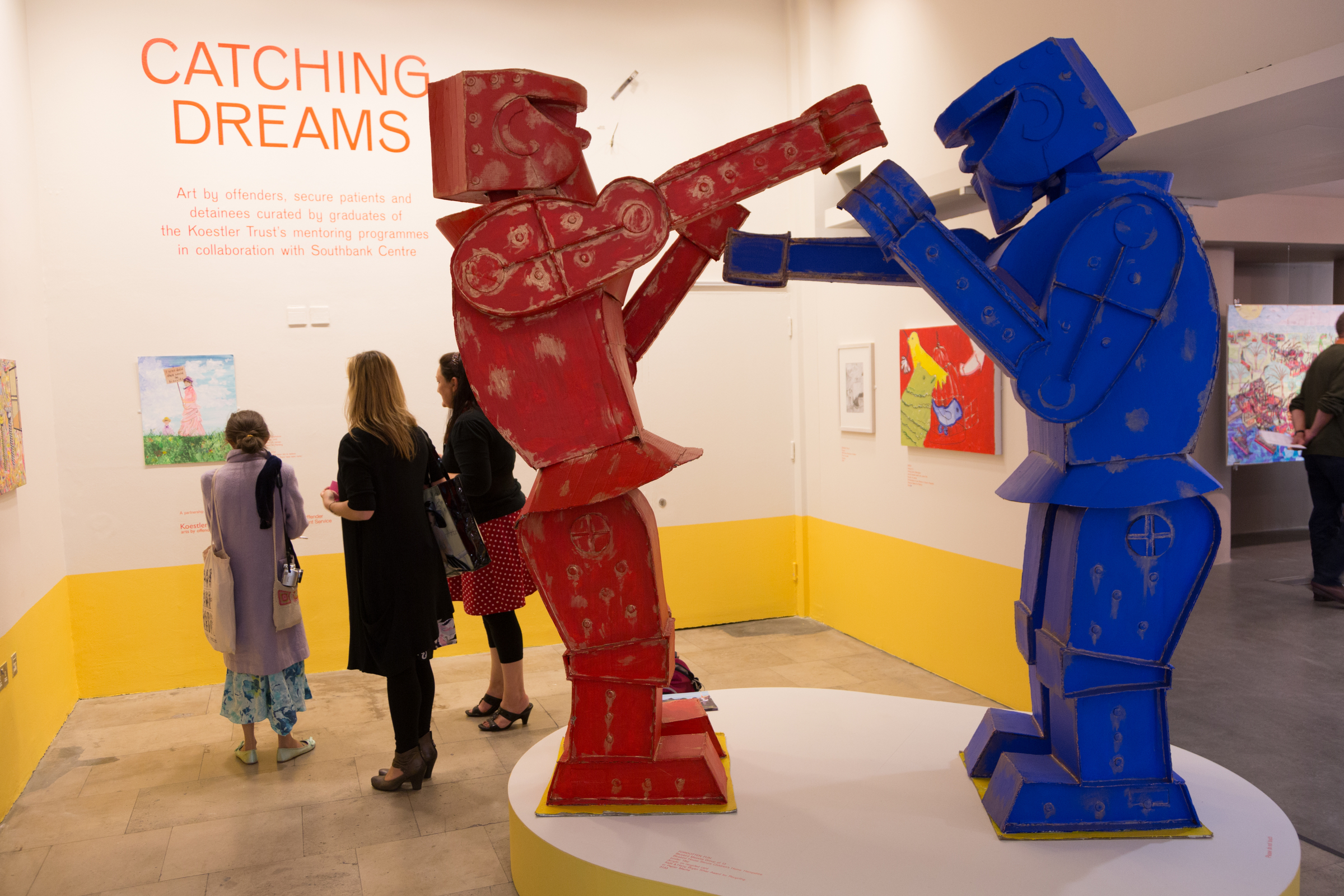 'Catching Dreams' exhibition of entries to the 2014 Koestler Awards held at Southbank Centre, London